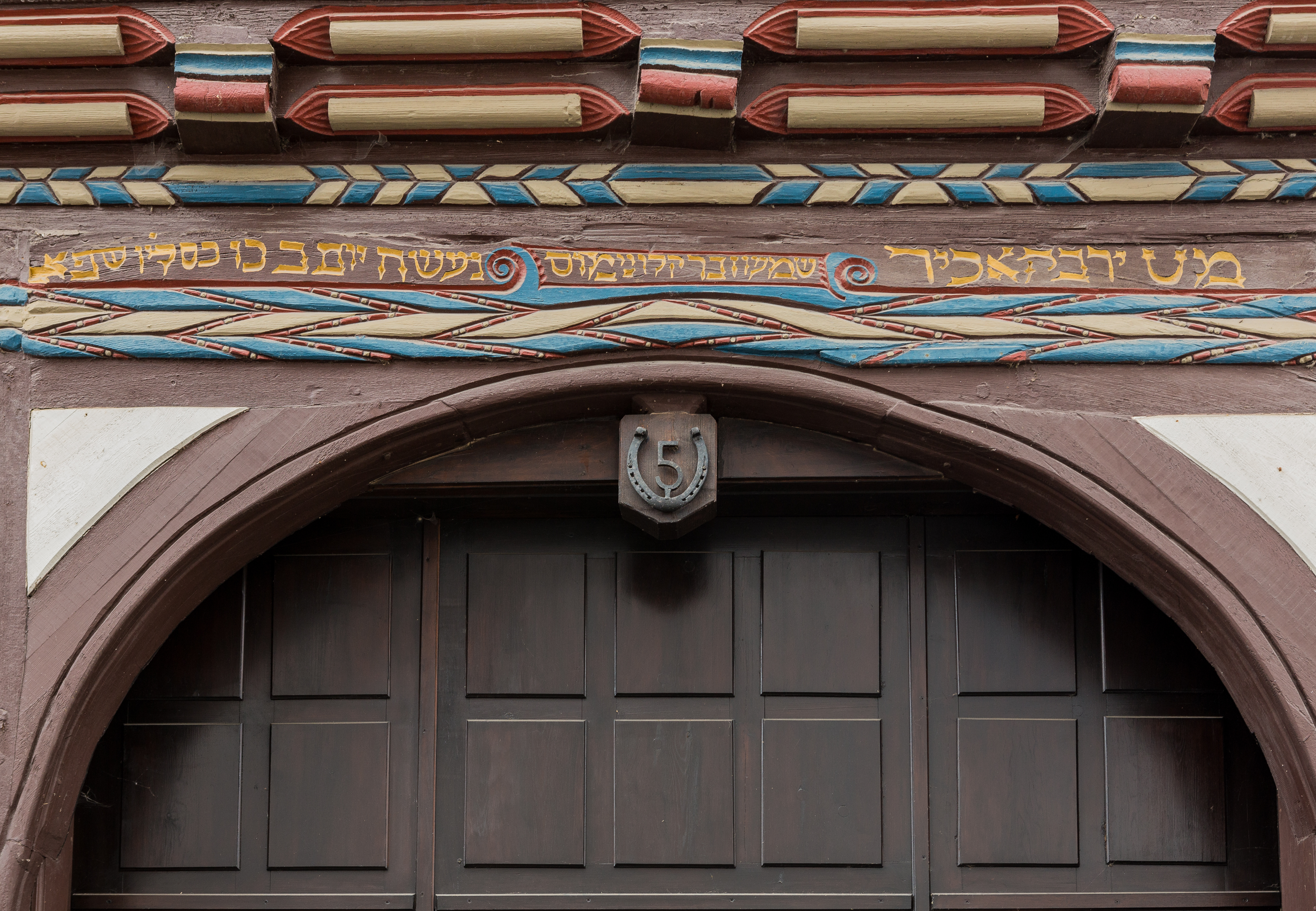 Hebrew inscription on the Jewish House's archway in Wanfried, Germany.